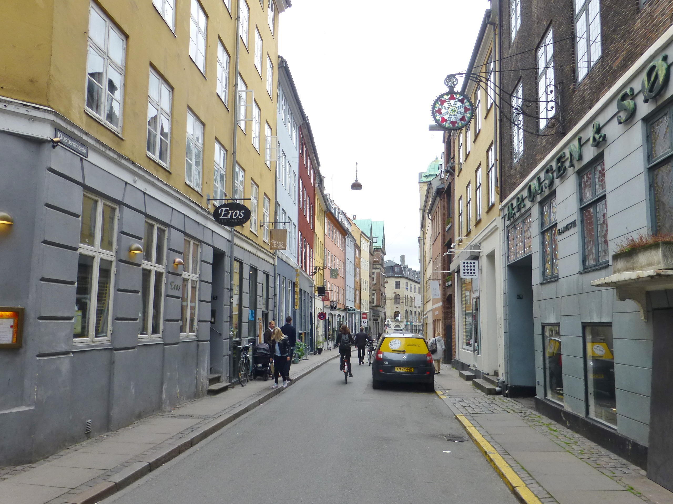 The street Klosterstræde in Indre By in Copenhagen.